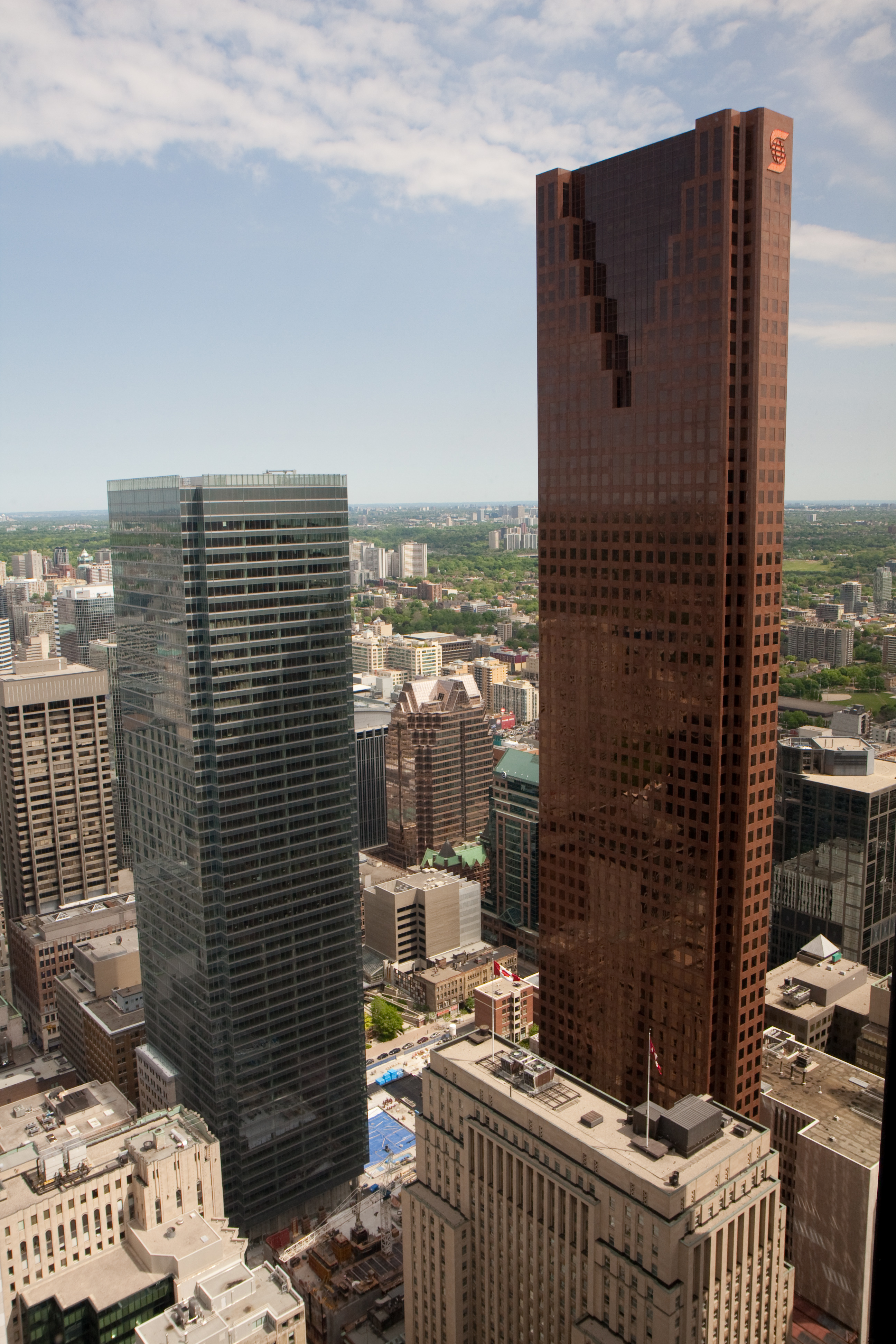 Bay Adelaide Centre West Tower and Scotia Plaza. Looking out from the 54th floor of the TD Tower in Toronto. Taken during Doors Open 2009.